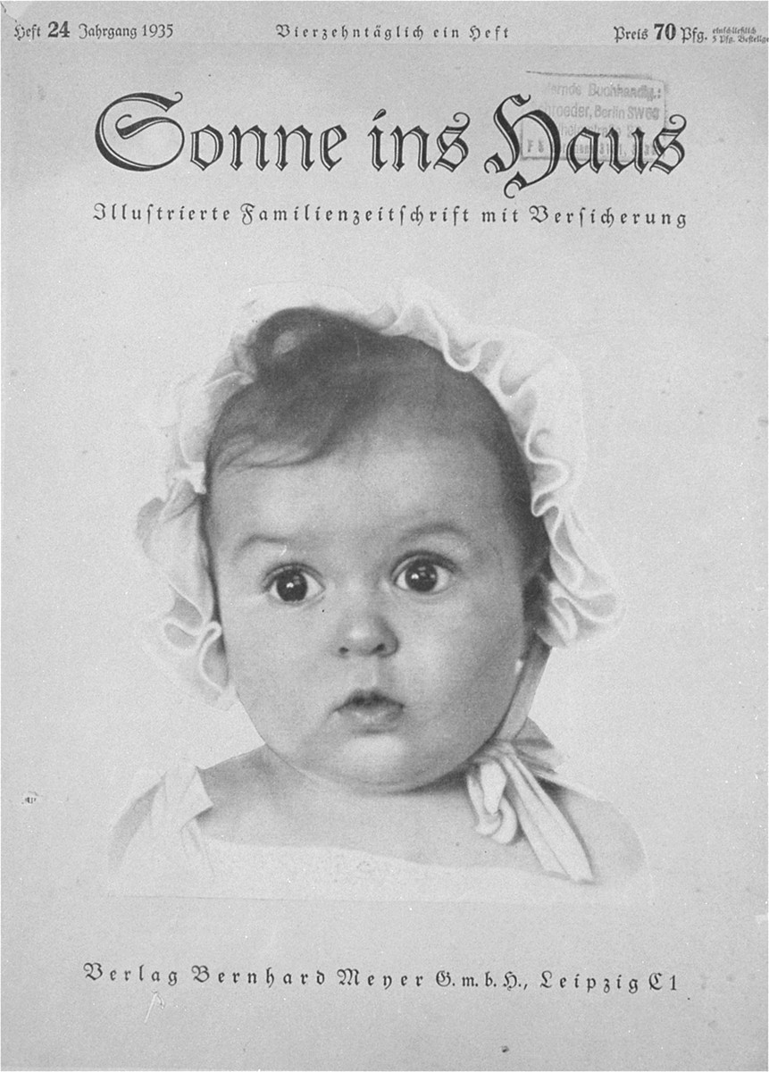 Front cover photograph of Hessy Levinsons, the winner of the most beautiful Aryan baby contest--whose promoters never discovered her Jewish ancestry, published on the cover of a Nazi magazine.